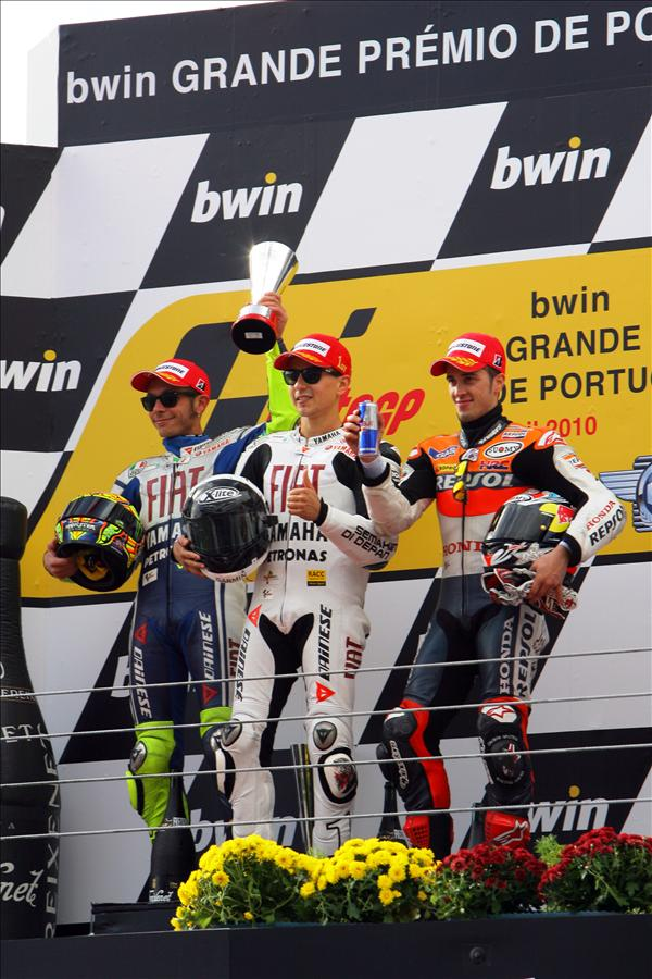 Valentino Rossi, Jorge Lorenzo and Andrea Dovizioso, celebrating on the podium after finishing in second, first and third place at the 2010 Portuguese Grand Prix.